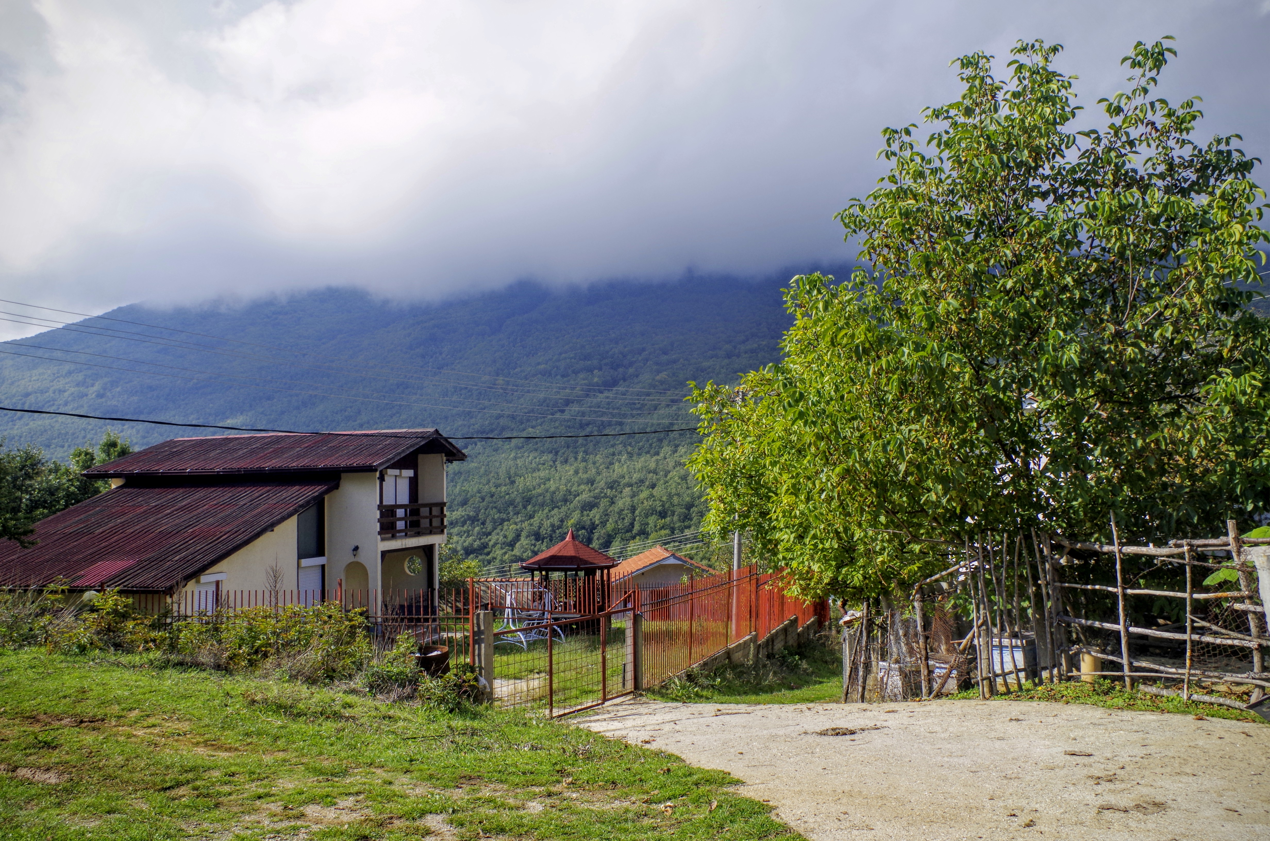 View of the village Leskoec, Resen